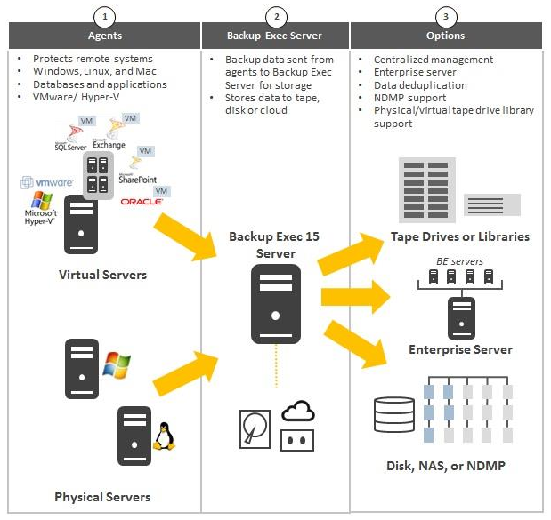 An illustration of the Backup Exec solution